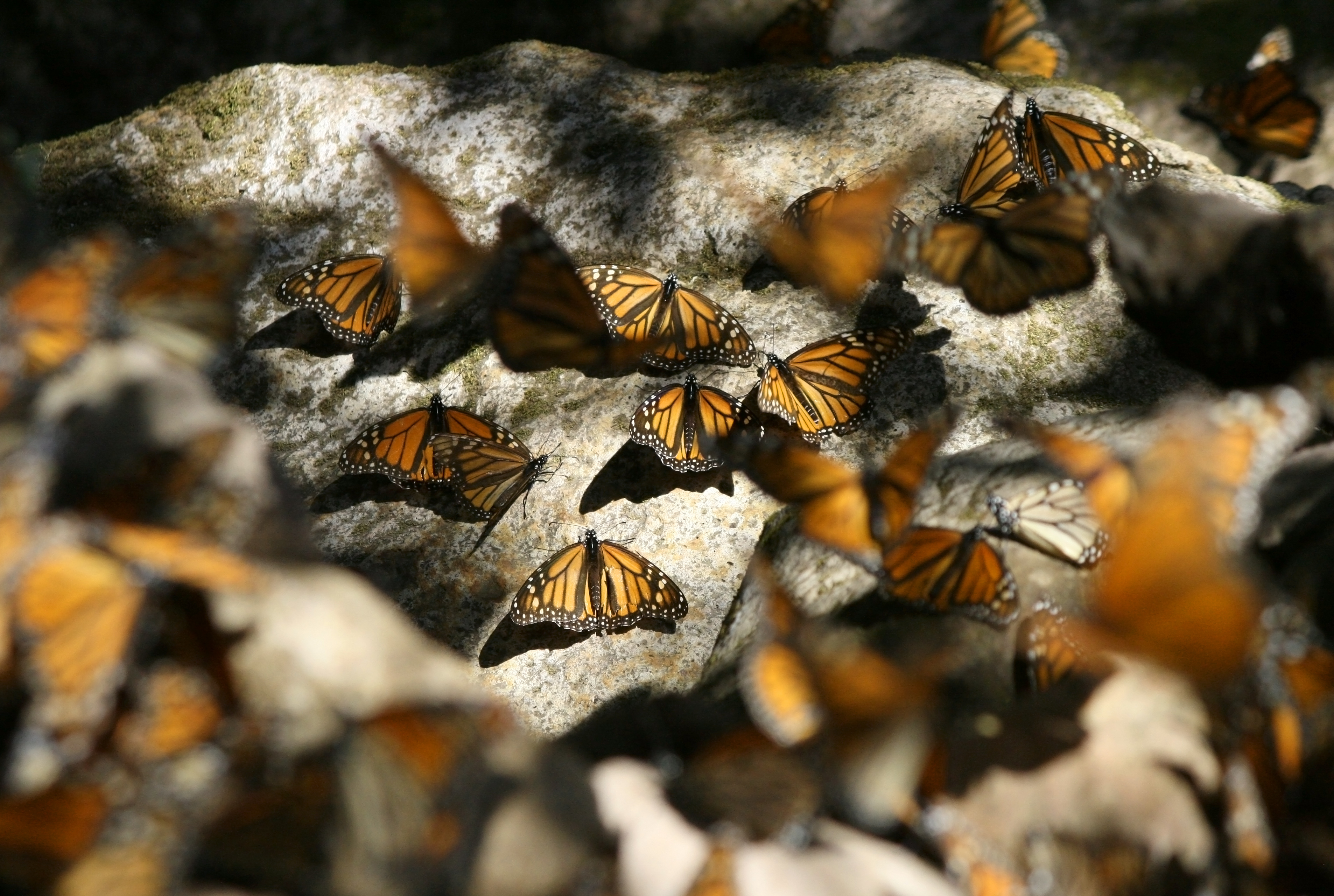 Monarchs resting on rocks